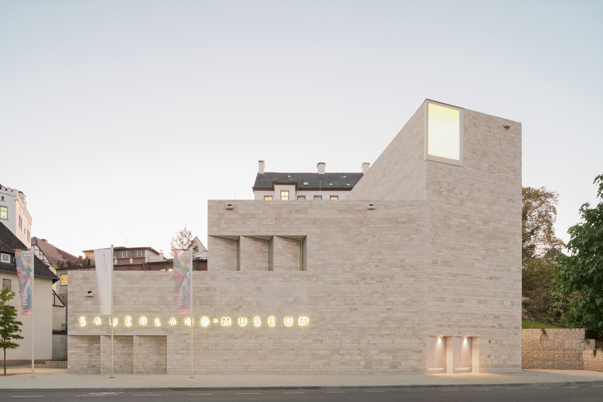 The new building of Sauerland-Museum in Arnsberg 2019